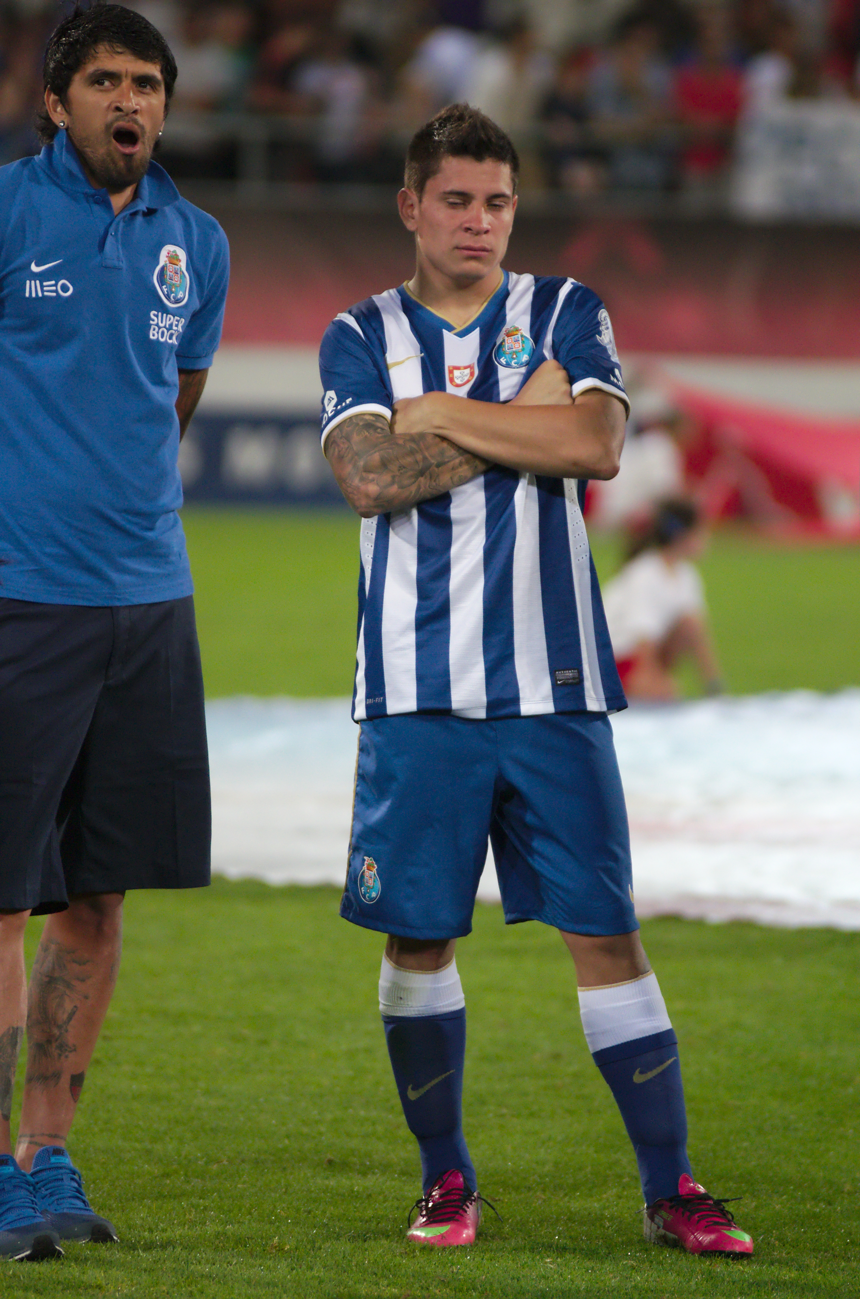 Valais Cup 2013 - OM-FC Porto - 20130713 - Juan Manuel Iturbe